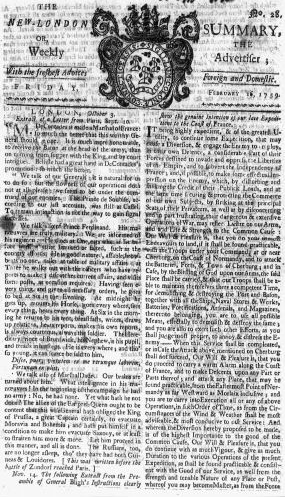 The New-London Summary, or, The Weekly Advertiser; Date: 02-16-1759; (New London, Connecticut)